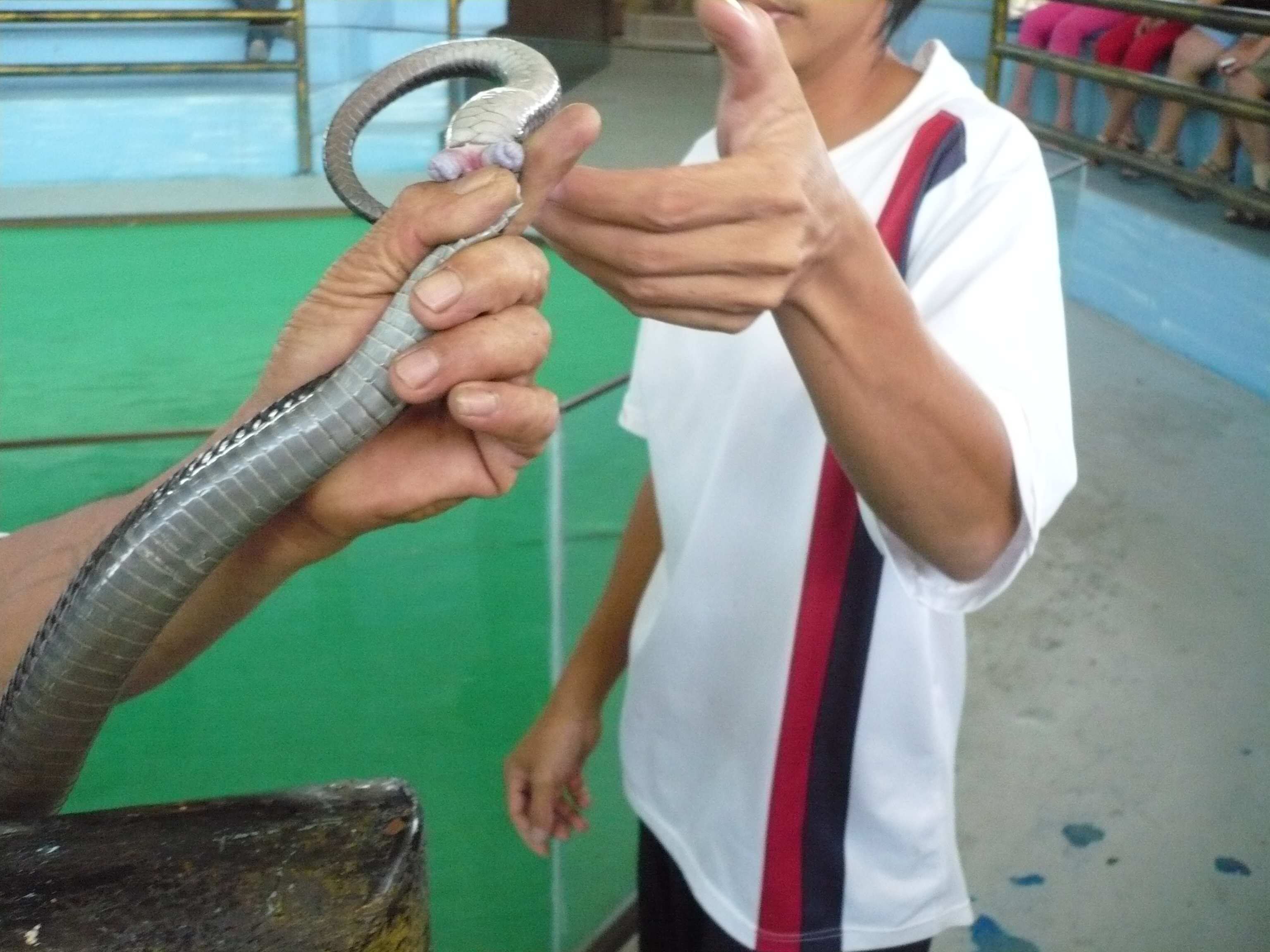 Representation with cobras in Thailand. Genitals Cobra